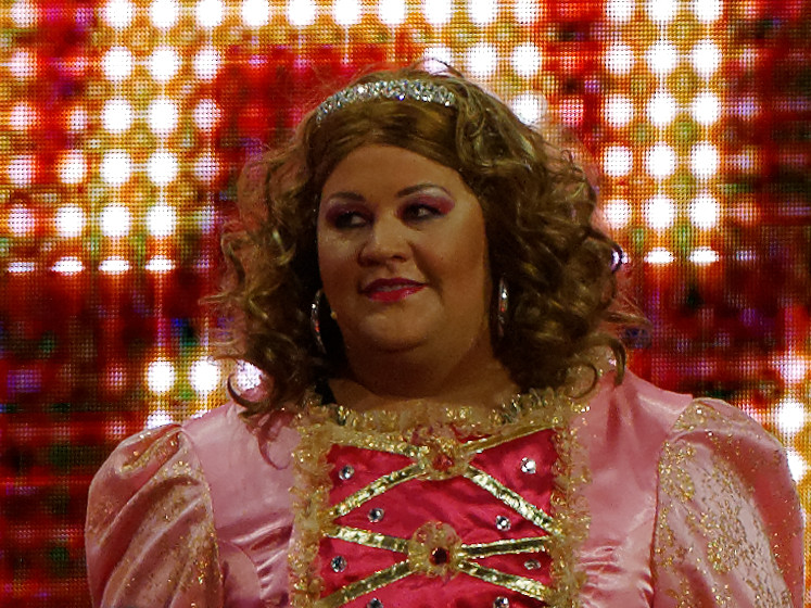 Wetten, dass.. ? am 23. März 2013 in der Stadthalle Wien The making of this document was supported by Wikimedia Austria. Cindy aus Marzahn